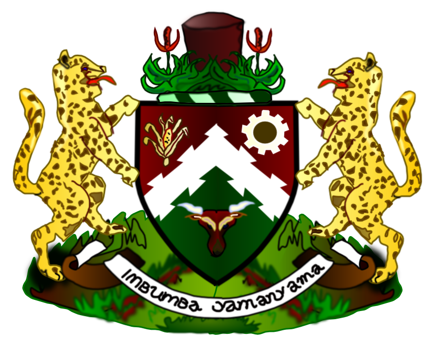 Coat of Arms of the Republic of Transkei, Southern Africa, Bantustan, Homeland, 1976-1994